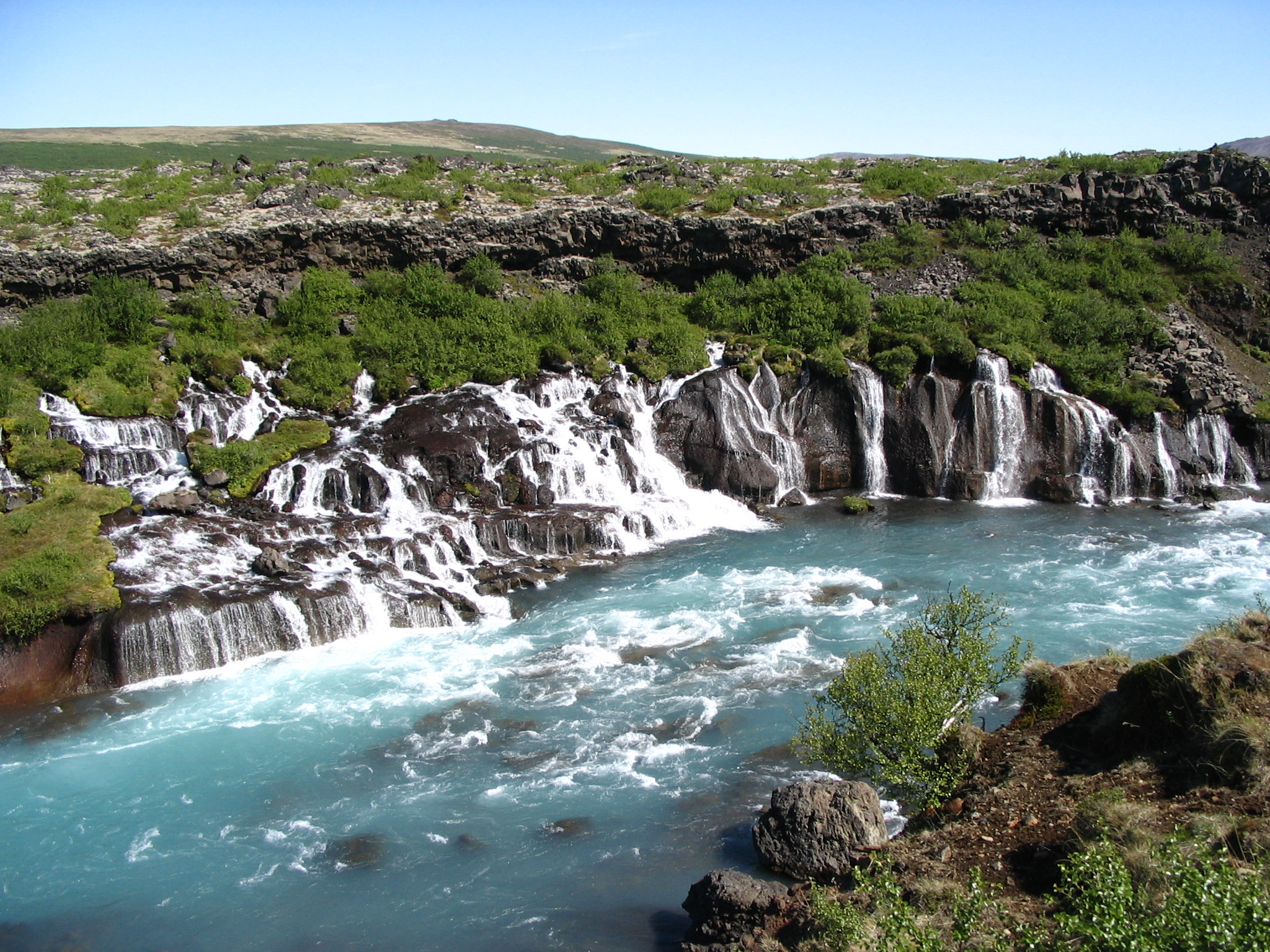 Hraunfossar, Iceland